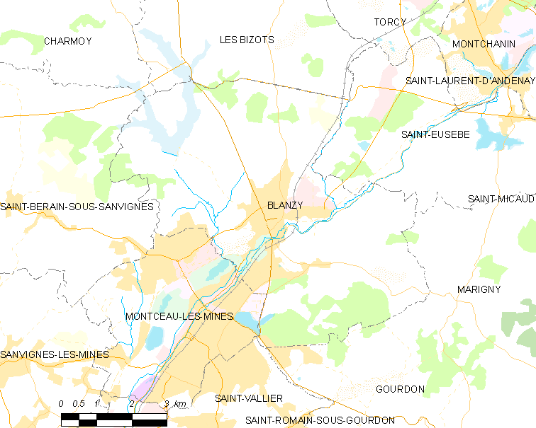 Map of French municipality